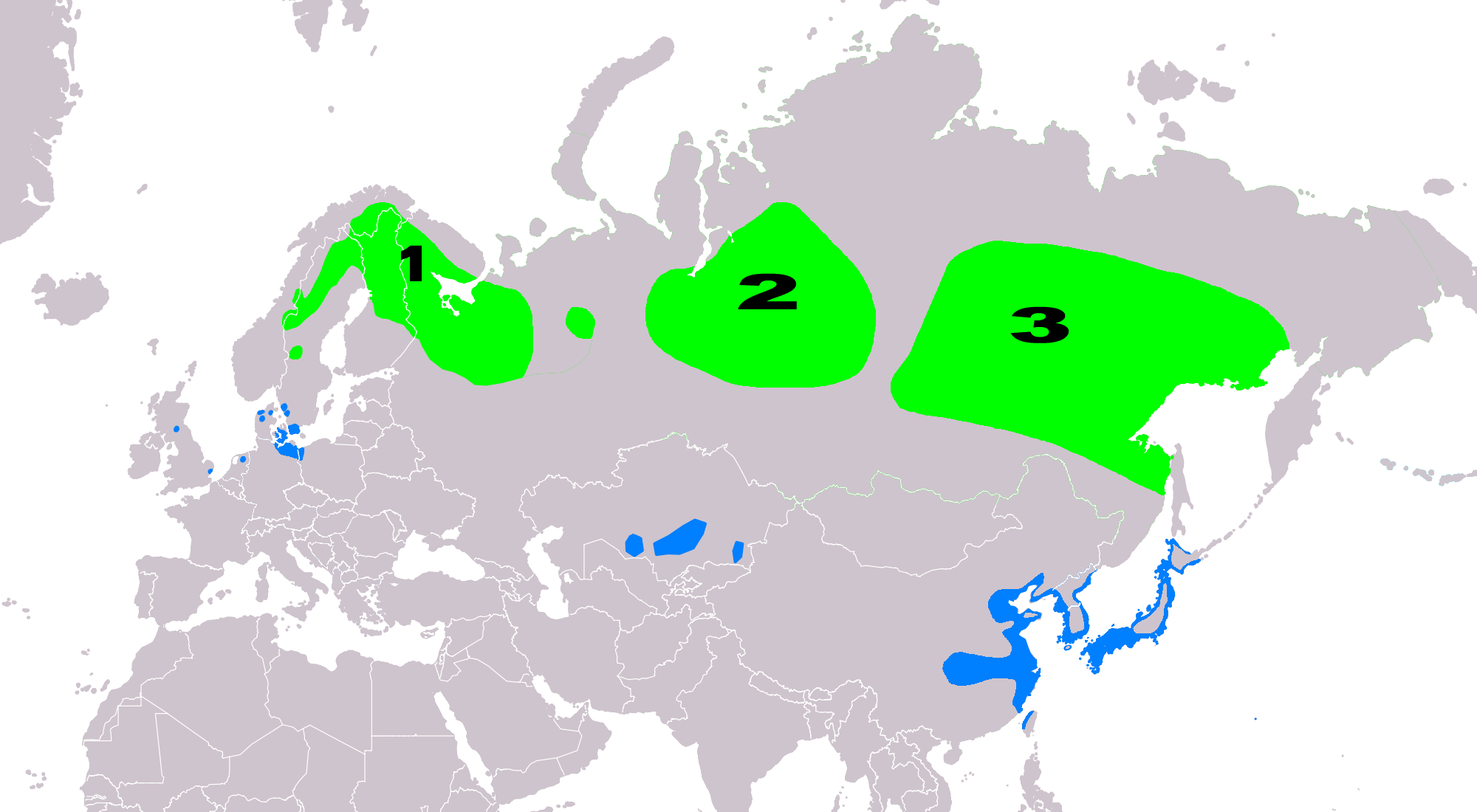 The distribution map of bean goose (Anser fabalis) according to IUCN version 2019.1; key: Legend: Extant, breeding (#00FF00), Extant, passage (#00FFFF), Extant, non-breeding (#007FFF) Anser fabalis fabalis Anser fabalis johanseni Anser fabalis middendorffii